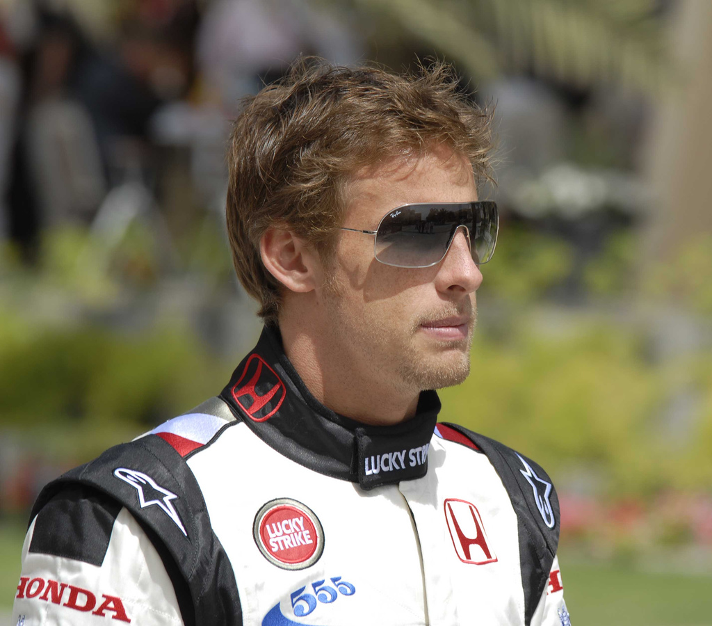 Jenson Button at the 2006 Bahrain Grand Prix.